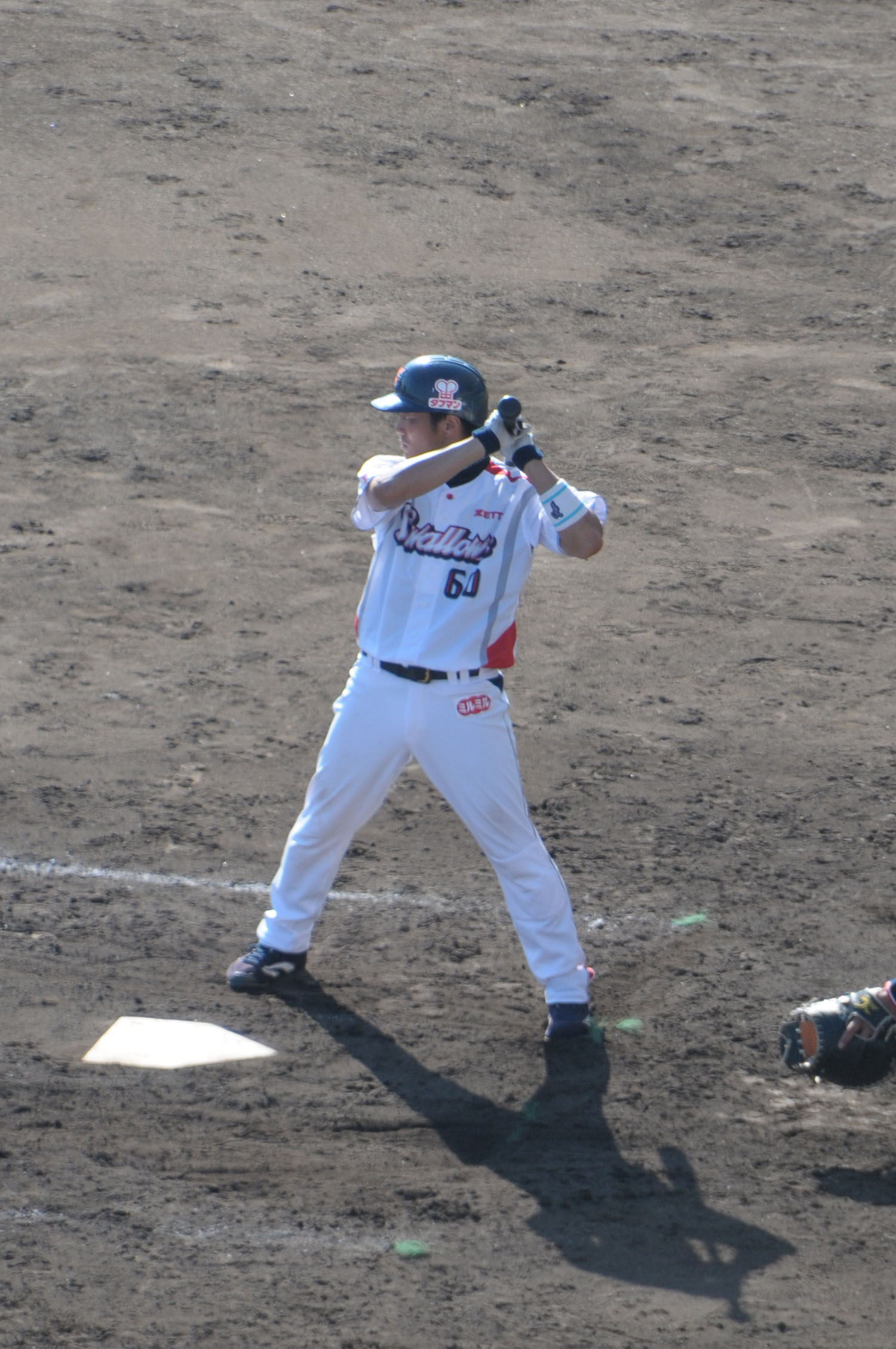 Masayoshi Miwa, infielder of the Tokyo Yakult Swallows, at Akita Prefectural Baseball Stadium.